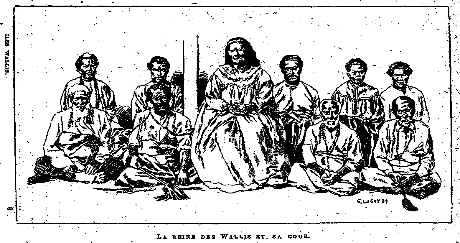 Engraving of the queen of Wallis island, Amelia, with her court, in front of the royal Palace in Mata-Utu. This engraving is a copy of a photograph taken at the end of the 1880s.